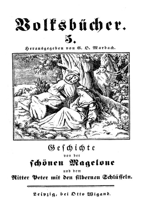 History of the belle Magelone